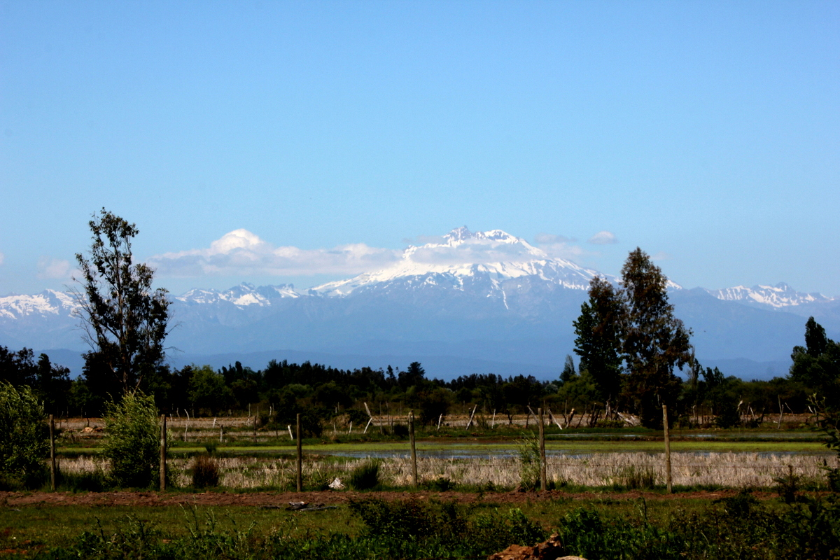 volcano Longaví from the outskirts of Parral